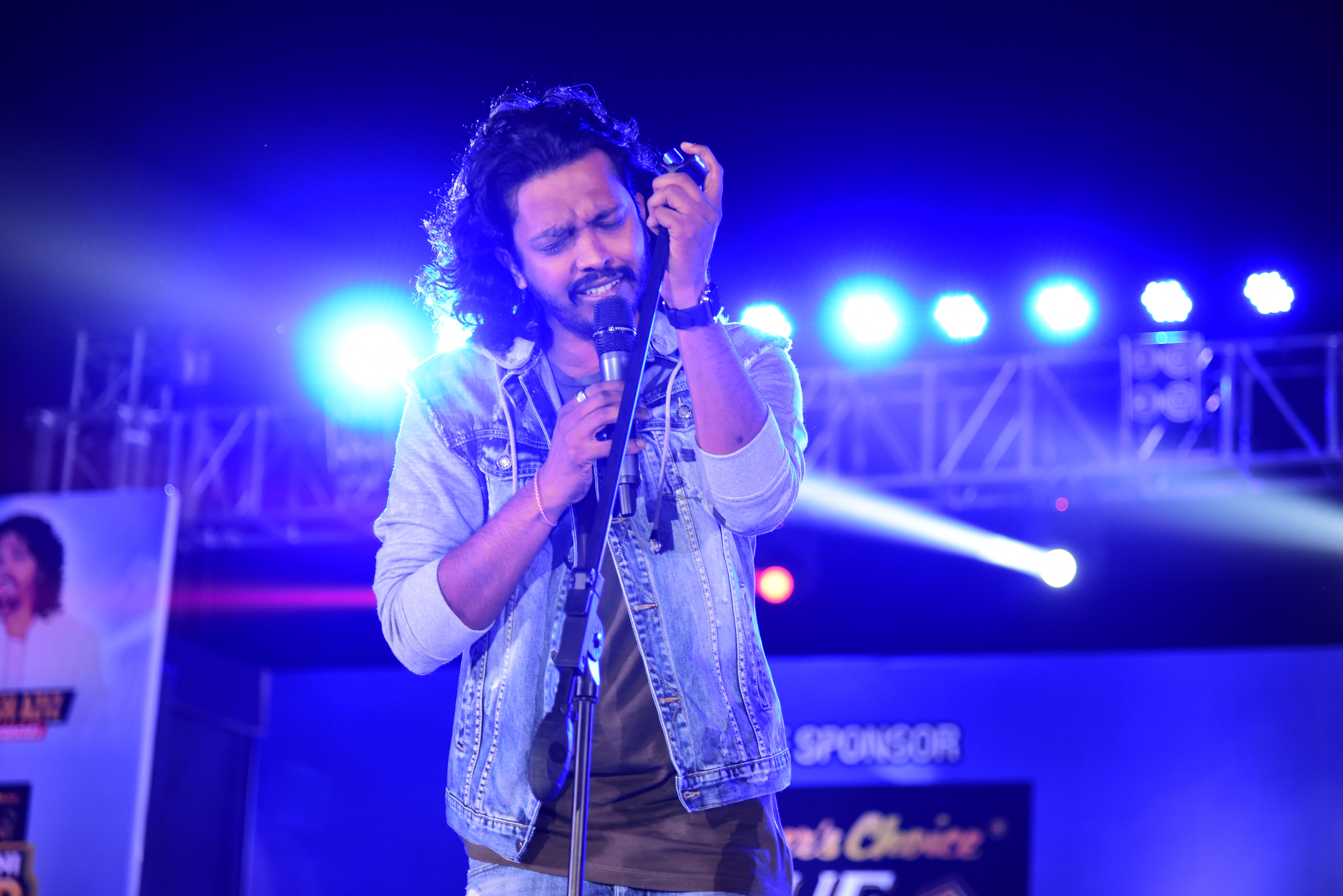 Photograph of popular singer & composer Nakash Aziz.